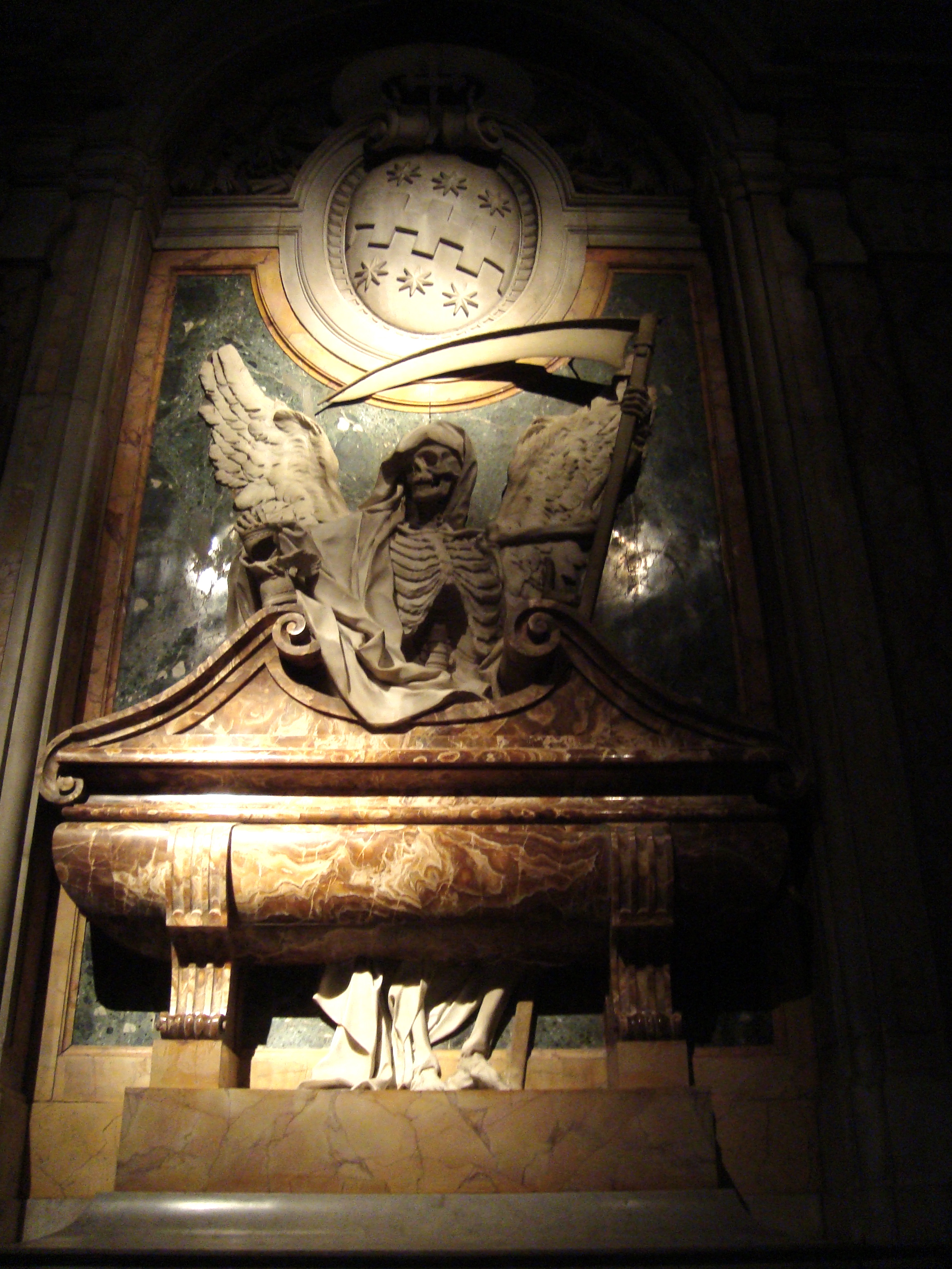 Tomb of Cardinal Cinthio Aldobrandino in San Pietro in Vincoli in Rome.